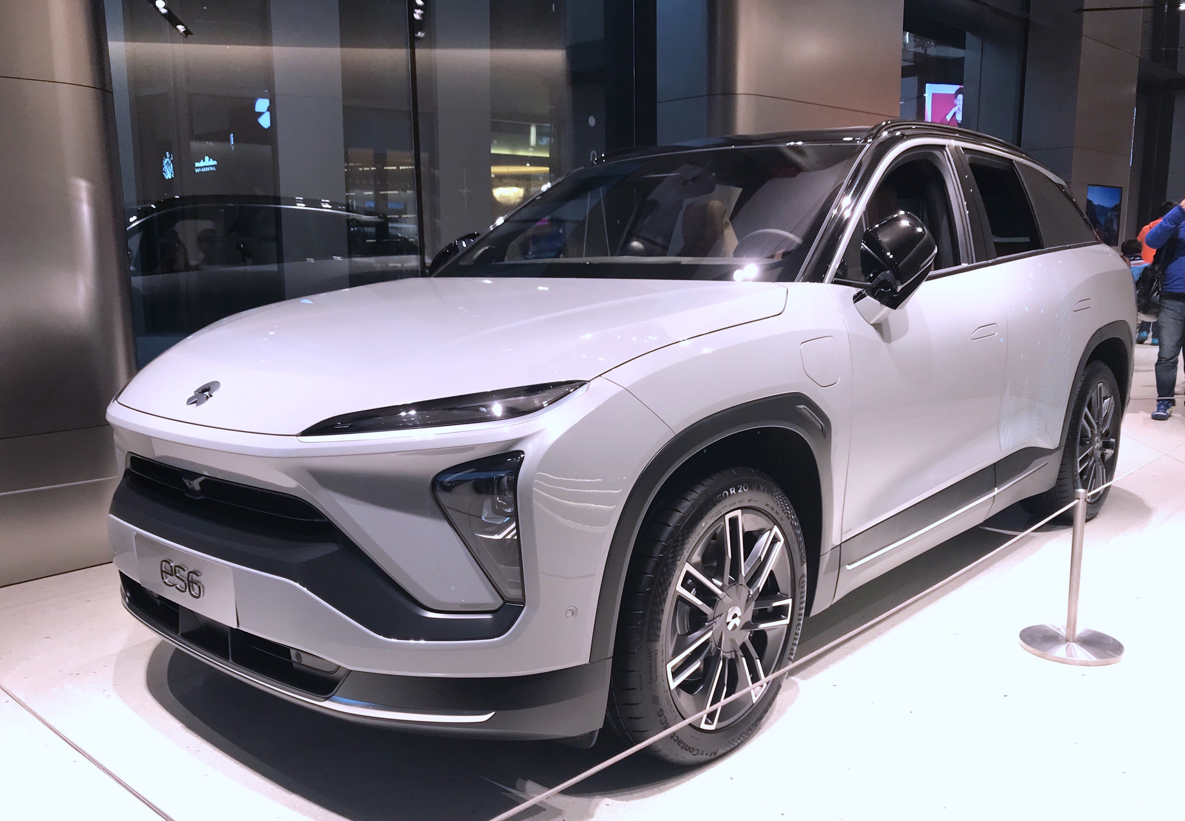 Nio ES6